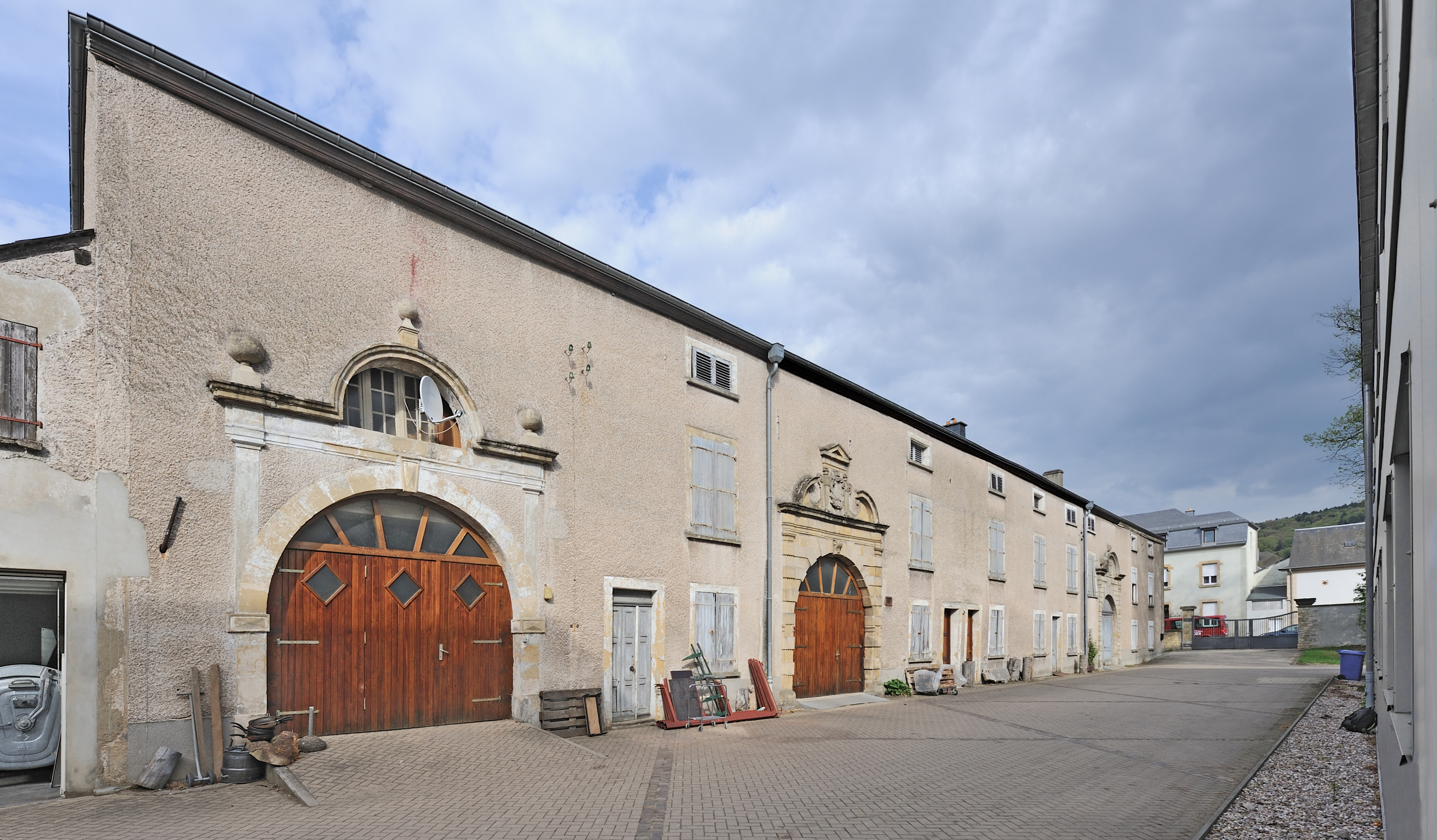 Heisdorf: outbuildings of the castle. Facade with three of the portals of the castle of 1645.